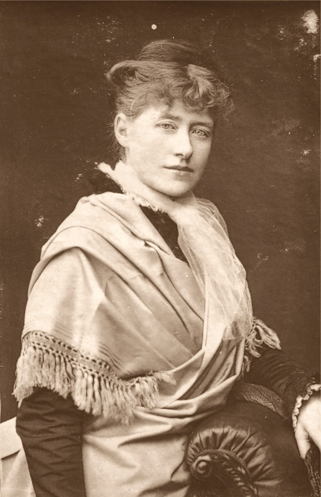 Ellen Alice Terry 1847-1928, English Actress.